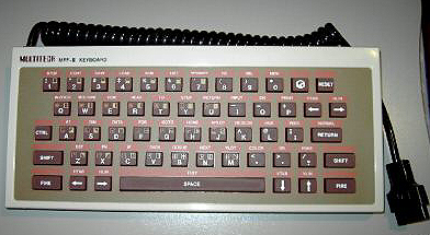 Keyboard Microprofessor